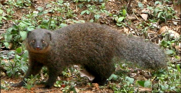 Brown Mongoose, Southern Western Ghats